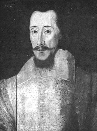 Portrait of Tomos Prys (c.1564–1634), a Welsh soldier, sailor and poet.